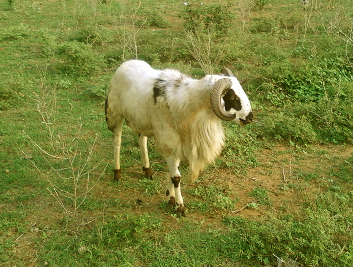 A male goat(capra aegagrus hircus) at Rajula Tallavalasa, Visakhapatnam district, Andhra Pradesh